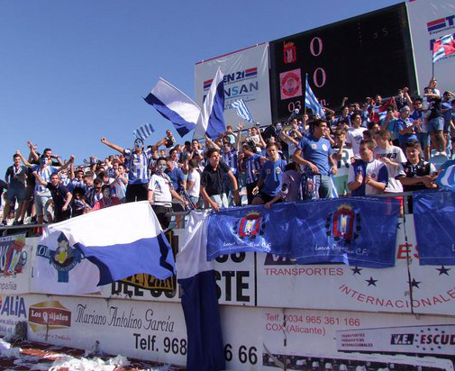 Lorca Deportiva 5